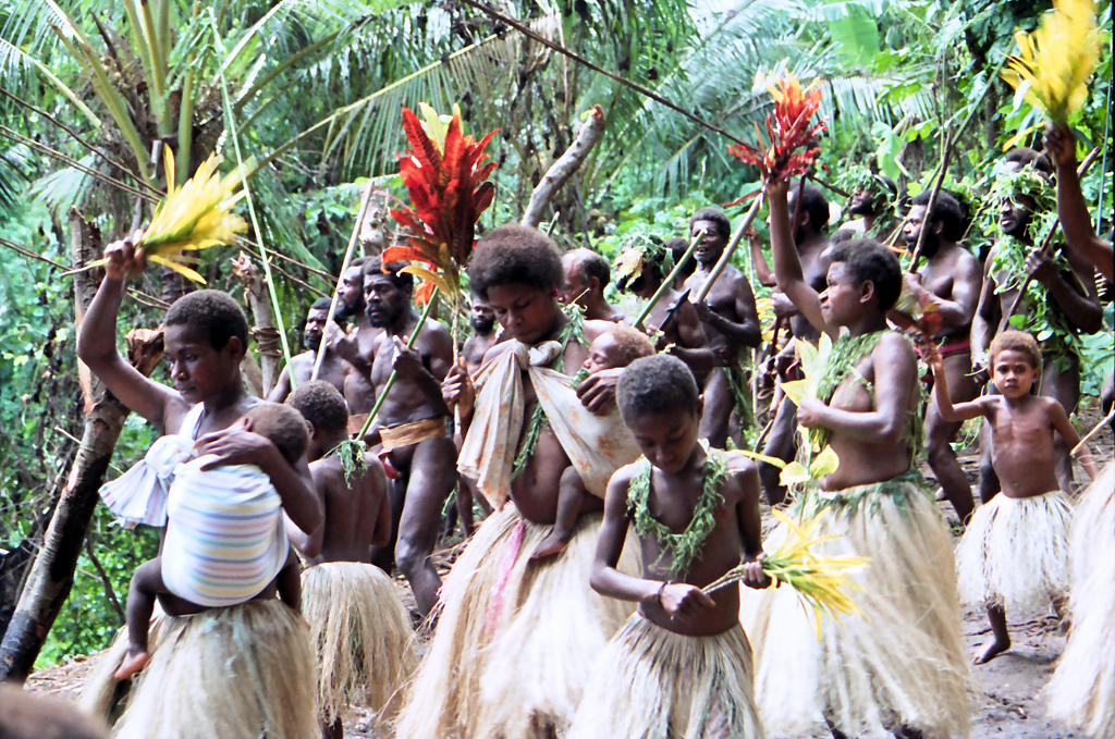 Women Dancing and Singing, Pentecost Island Vanuatu